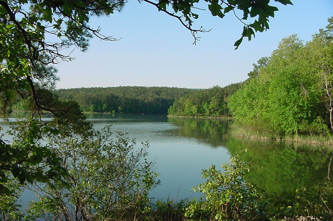 Ouachita National Forest from US Forest Service Report Cover. This image was copied from en. Transwiki approved by: User:Dmcdevit